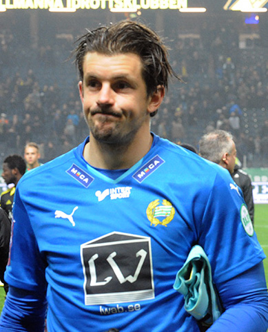 Hopf playing for Hammarby in a game against AIK on 4 May 2015.